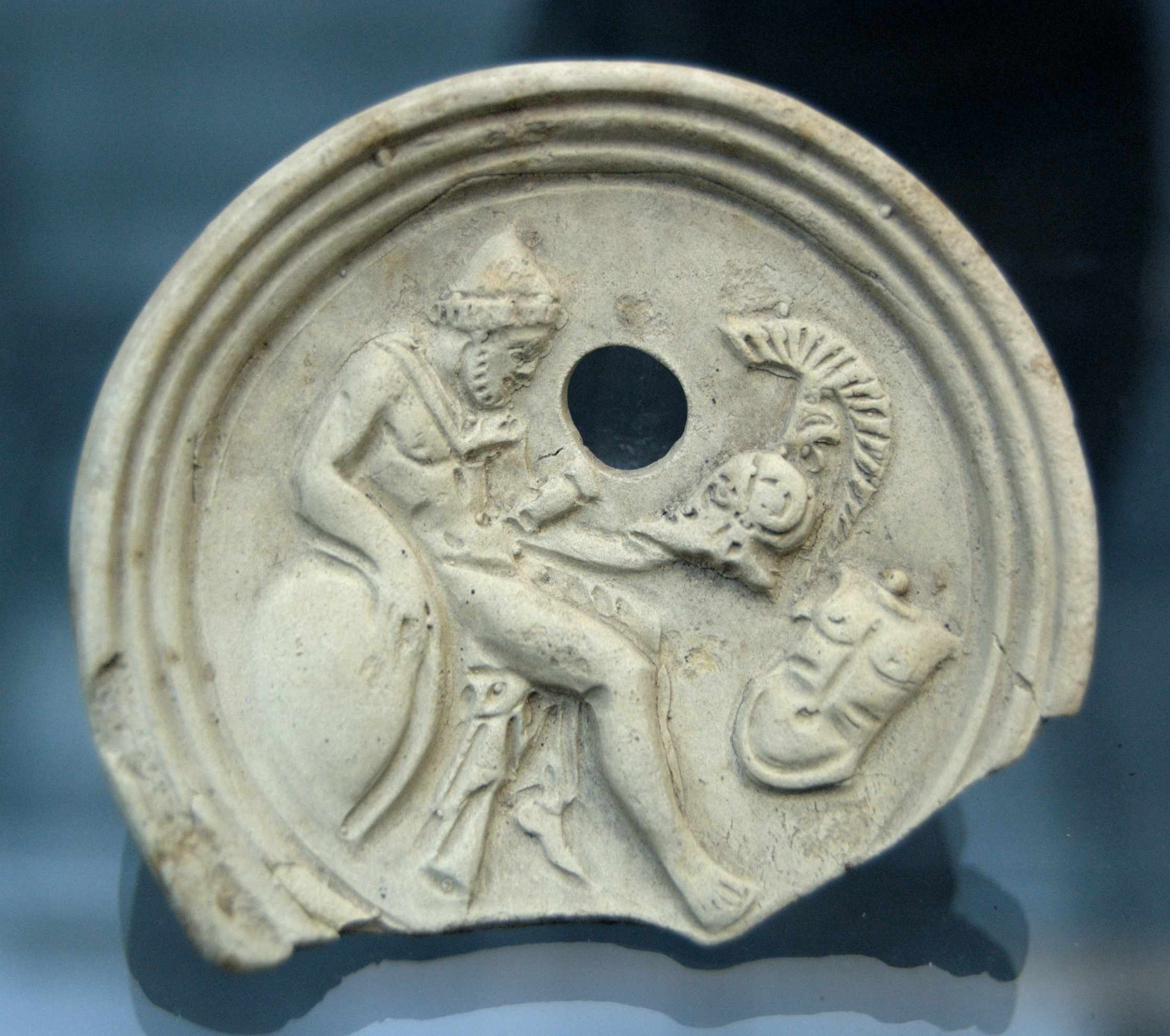 Odysseus contemplating Achilles' arms (shield, helmet and armour). Clay oil lamp, 1st century CE.